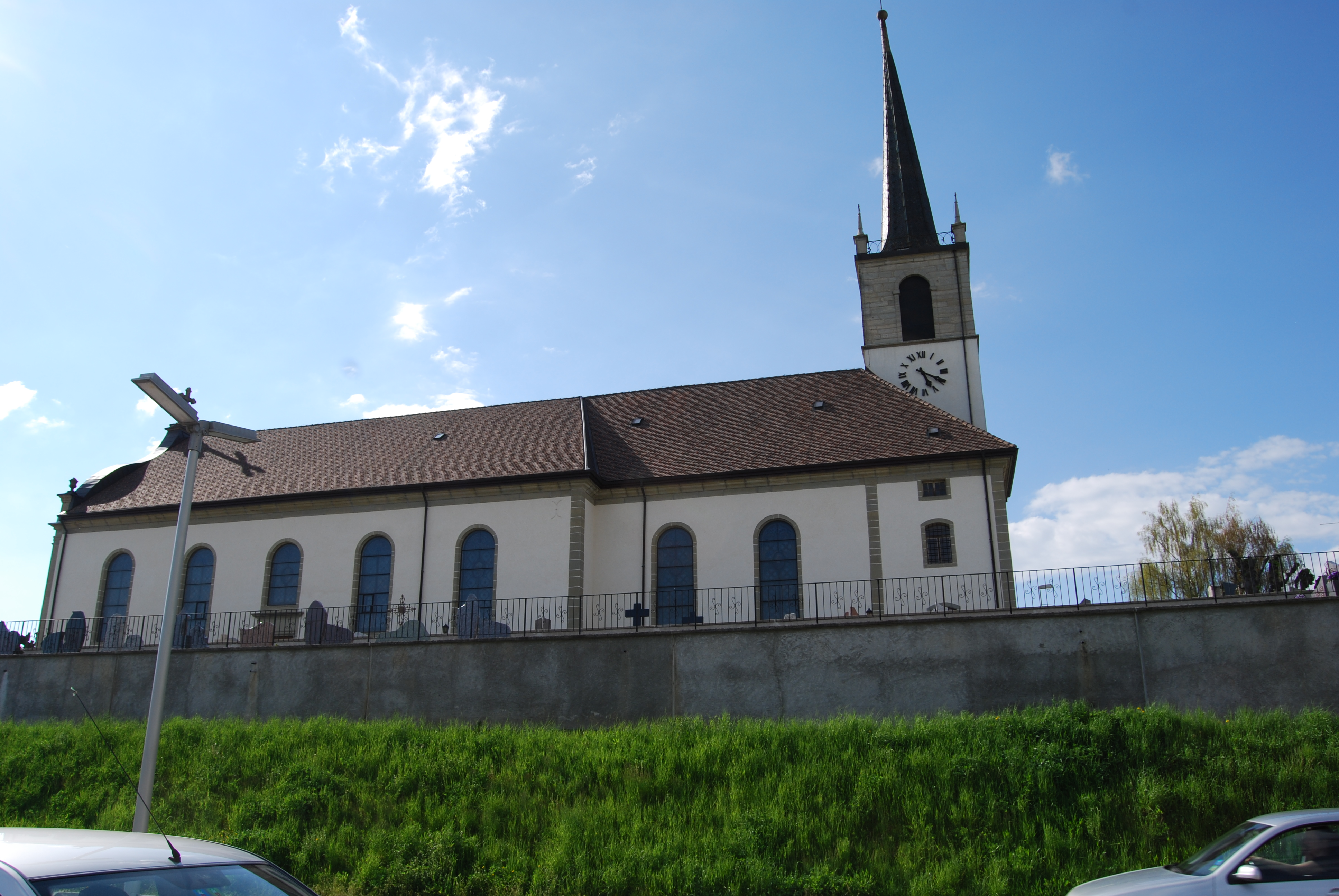 Church Saint-Pierre et Paule at Villaz-Saint-Pierre, canton of Fribourg, Switzerland